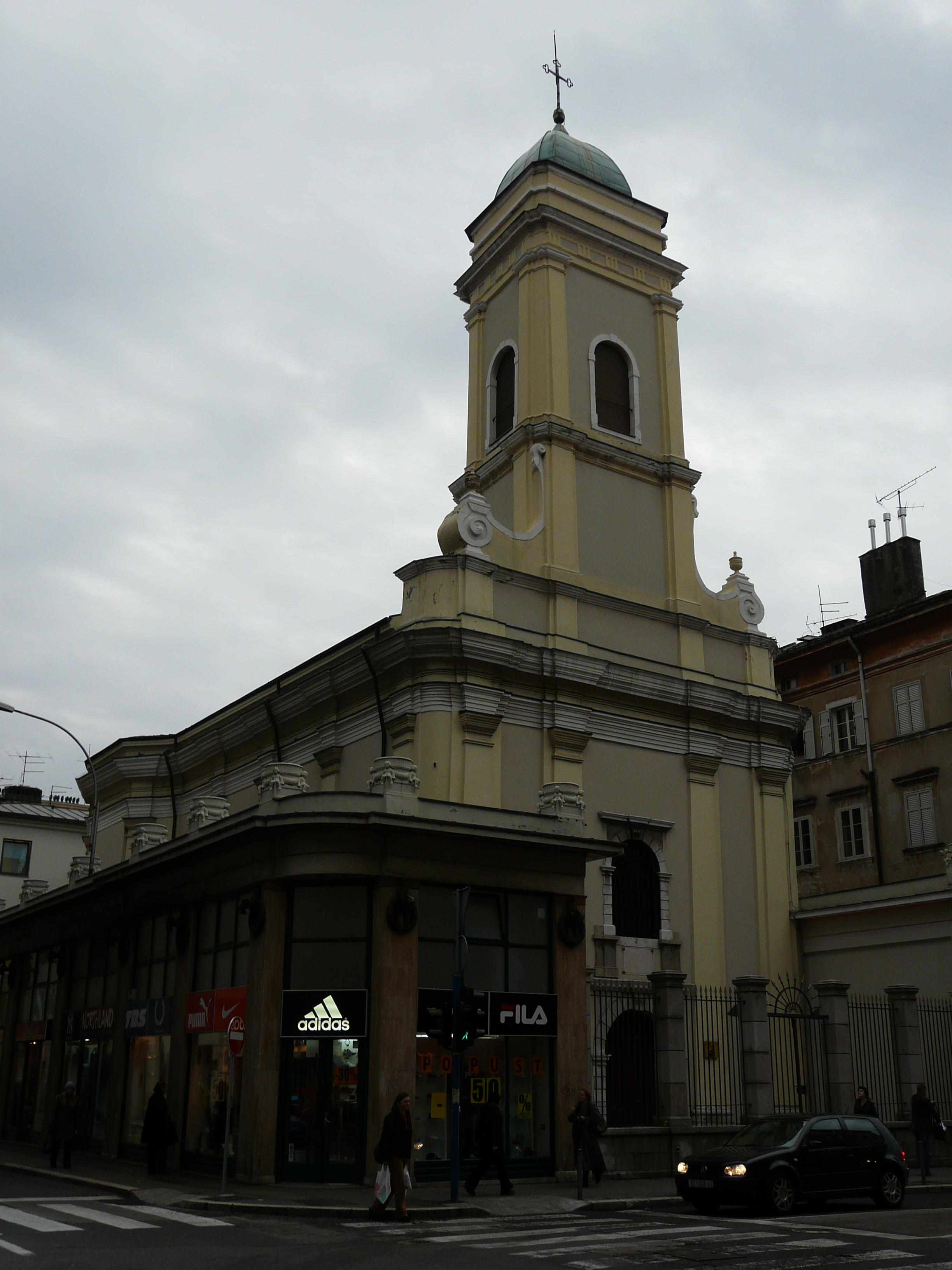 Serbian Ortodox Chirch of Saint Nicola in Rijeka (Croatia).